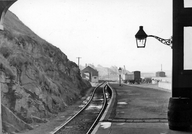 Banff Station. View outward (west). Terminus of branch from Tillynaught, closed 6/7/64 (Goods 6/5/68).